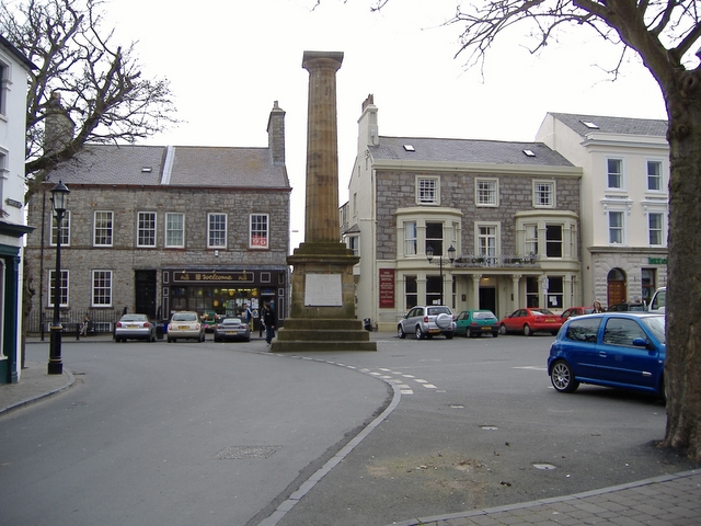 The Square, Castletown, Isle of Man. The Smelt memorial is in the centre, with the George Hotel in the background on the right.